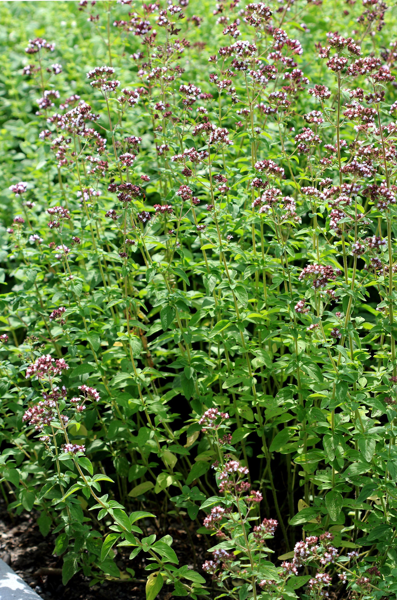 Flowering plants Oregano, Origanum vulgare from Botanical Garden of Charles University in Prague, Czech Republic Česky: Kvetoucí rostliny dobromysli obecné Origanum vulgare, Botanická zahrada Univerzity Karlovy Praha